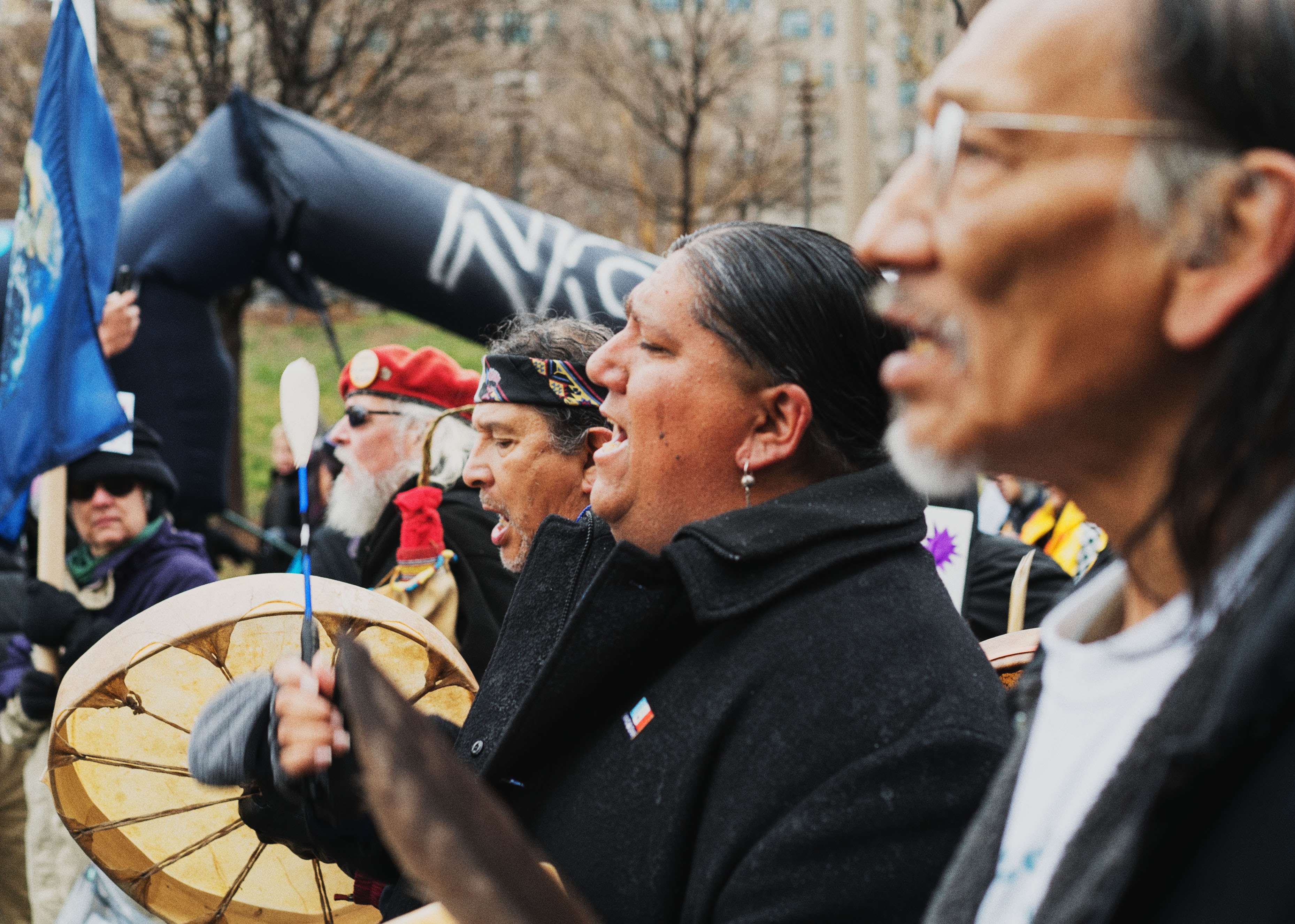 2017 Indigenous Peoples March (Native Nations March) Washington, DC. March 10, 2017. Nathan Phillips (right) marches and plays a drum.